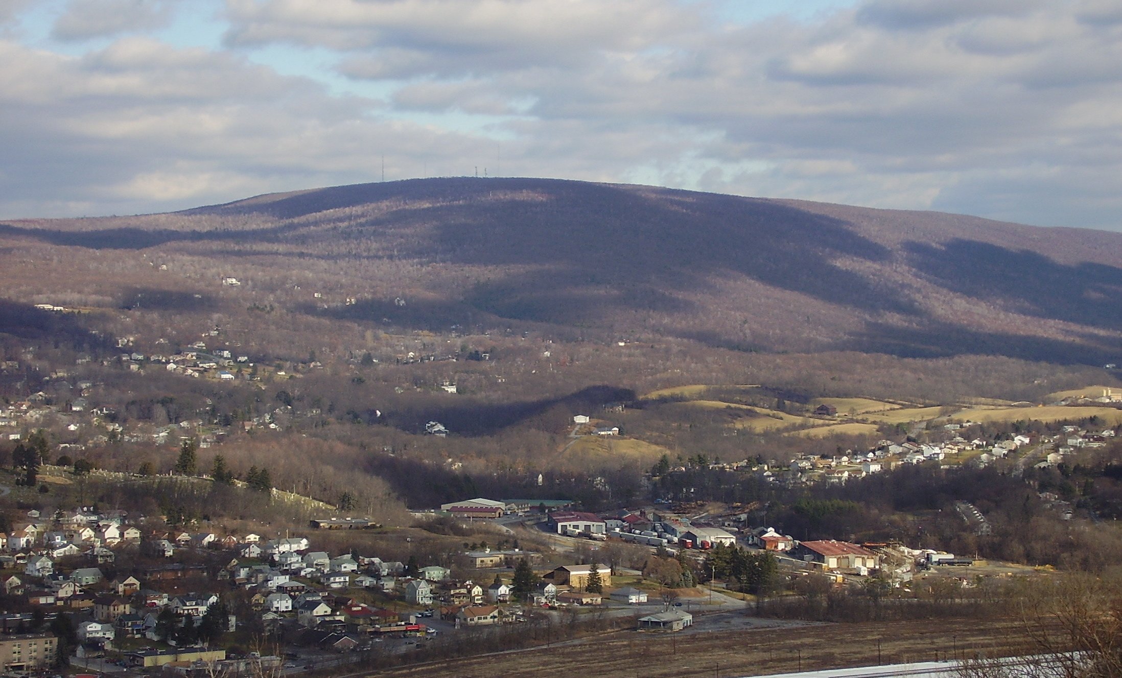 Brush mountain as seen from Chimney Rocks, Hollidaysburg, Pennsylvania